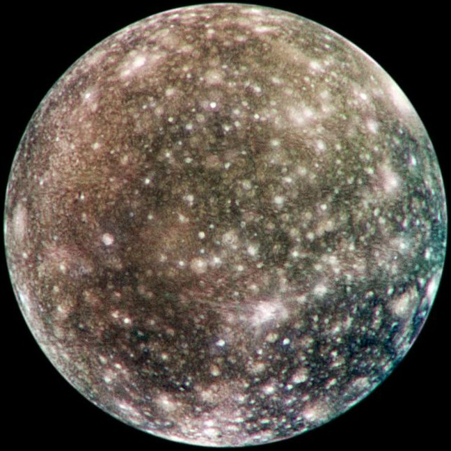 Bright scars on a darker surface testify to a long history of impacts on Jupiter's moon Callisto in this image of Callisto from NASA's Galileo spacecraft. The picture, taken in May 2001, is the only complete global color image of Callisto obtained by Galileo, which has been orbiting Jupiter since December 1995. Of Jupiter's four largest moons, Callisto orbits farthest from the giant planet. Callisto's surface is uniformly cratered but is not uniform in color or brightness. Scientists believe the brighter areas are mainly ice and the darker areas are highly eroded, ice-poor material.